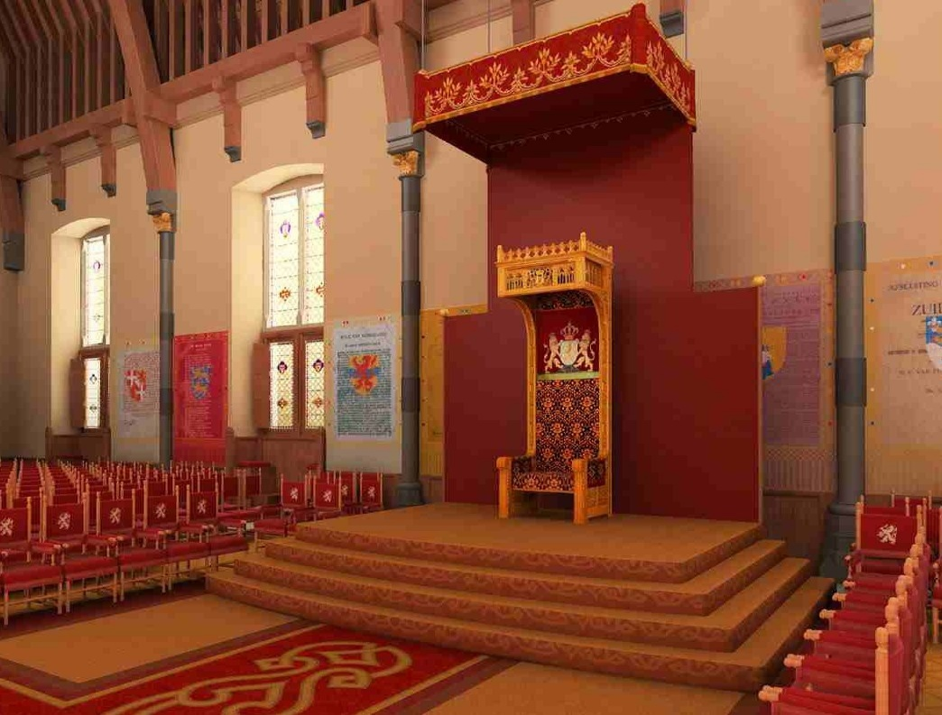 Royal throne in the Great Hall of the Ridderzaal in The Hague, the Netherlands